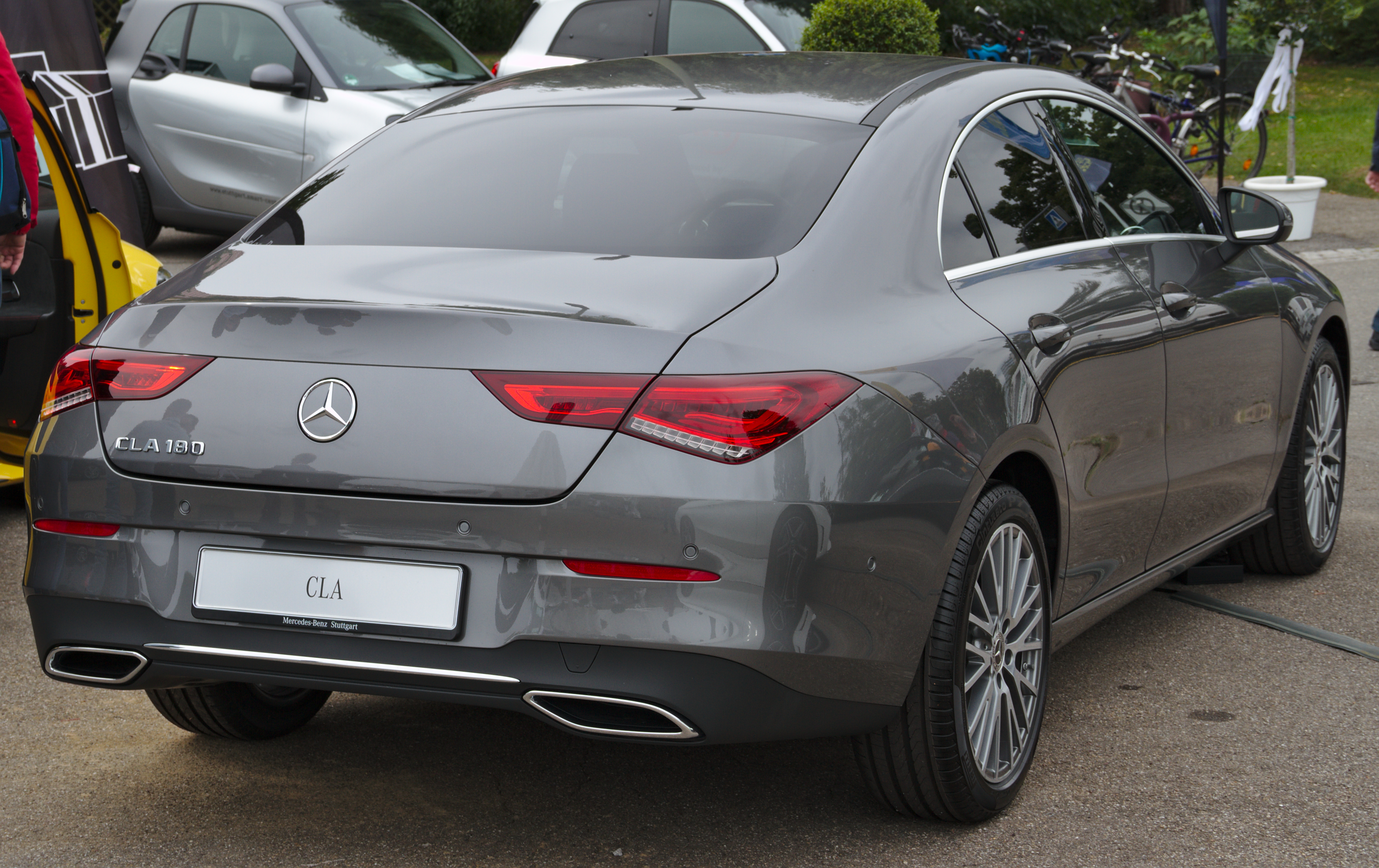 Mercedes-Benz_C118 at Leonberger Autoschau 2019